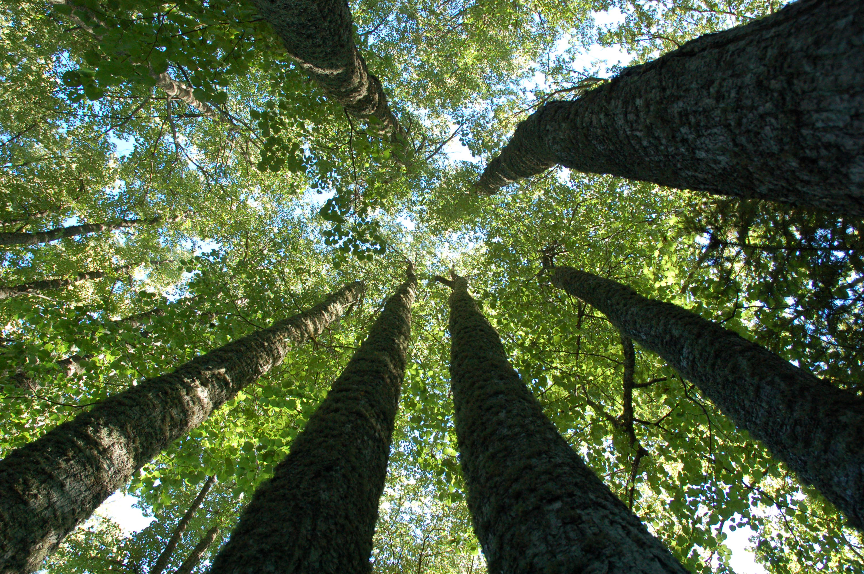 Sacred linden circle in Vihula, Estonia